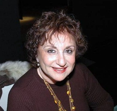 Rachel Haramati